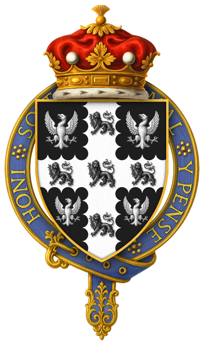 Shield of arms of Henry William Paget, 1st Marquess of Anglesey, KG, GCB, GCH, PC